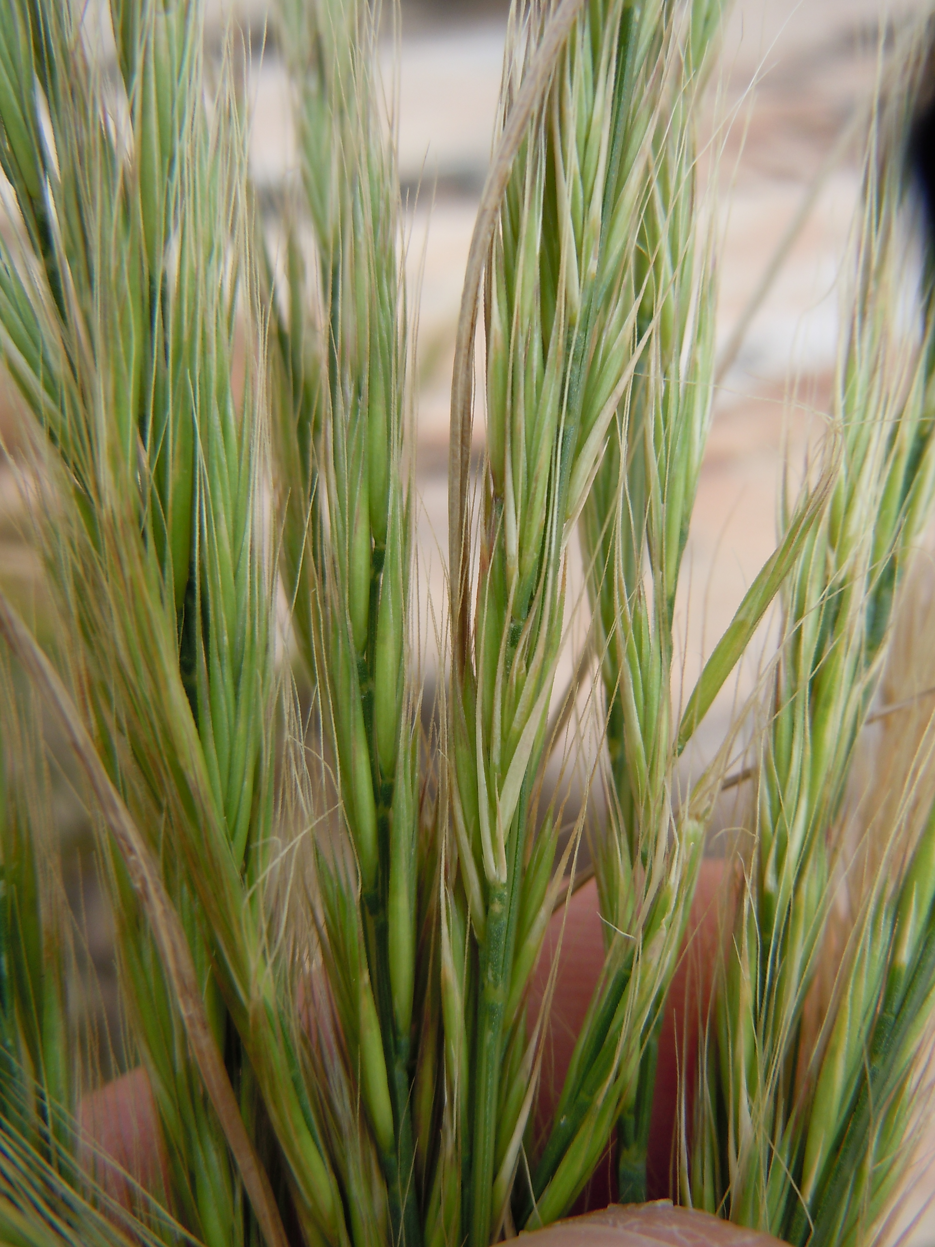 The first glume is very short (about 2 mm long) in this species. Also the inflorescence is secund, as in all Vulpia species.